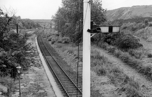 Bolsover (Midland) Station (remains). View southward, towards Pleasley and Mansfield; ex-Midland Mansfield - Pleasley - Staveley - Chesterfield line. Station closed 28/7/30 to passengers (excursions until 1939), to goods 1/11/62, but was reopened 28/7/77 - 1981! The line continued to carry colliery traffic until fairly recently and it is shown on the modern map as 'disused'